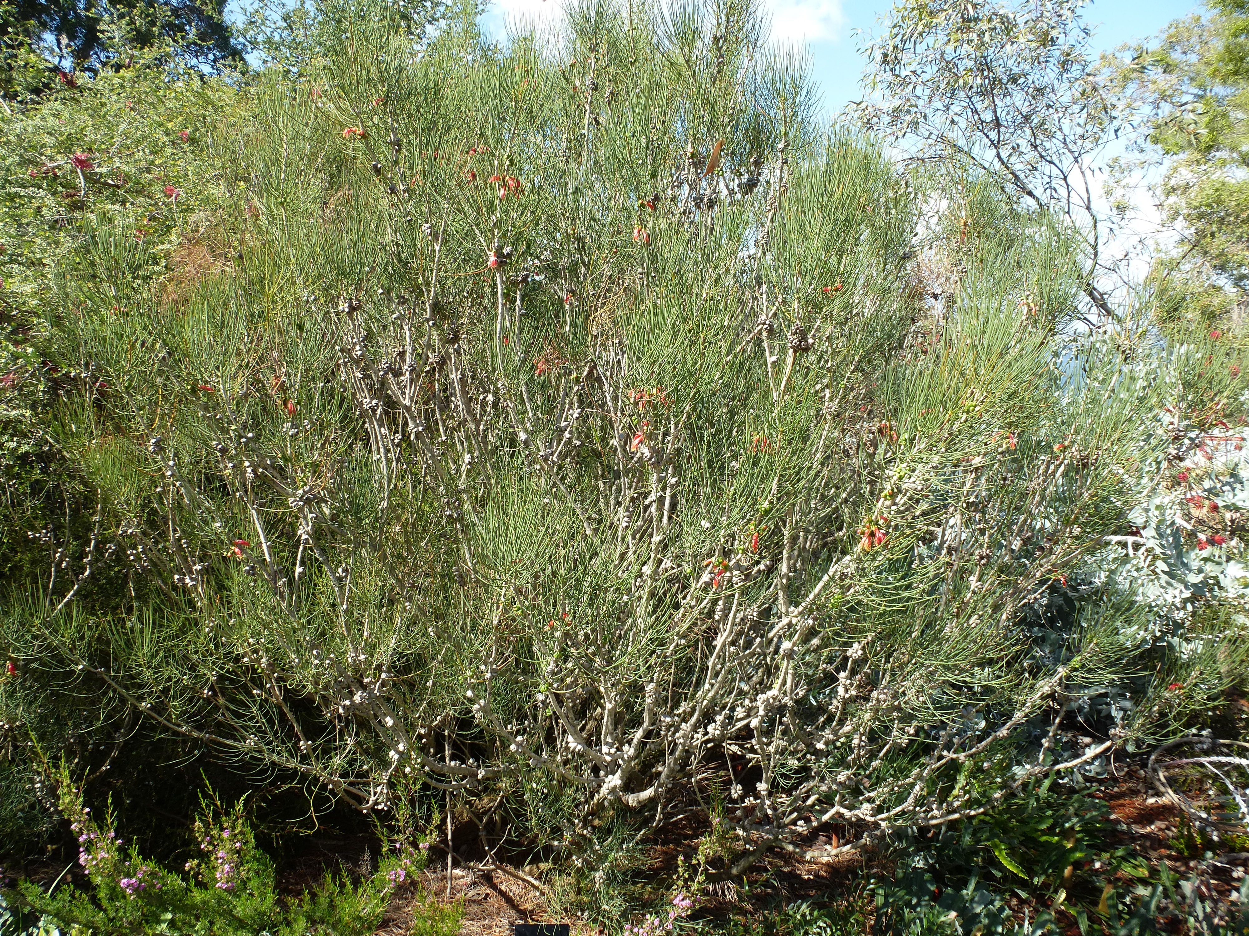 Calothamnus gilesii growing in Kings Park